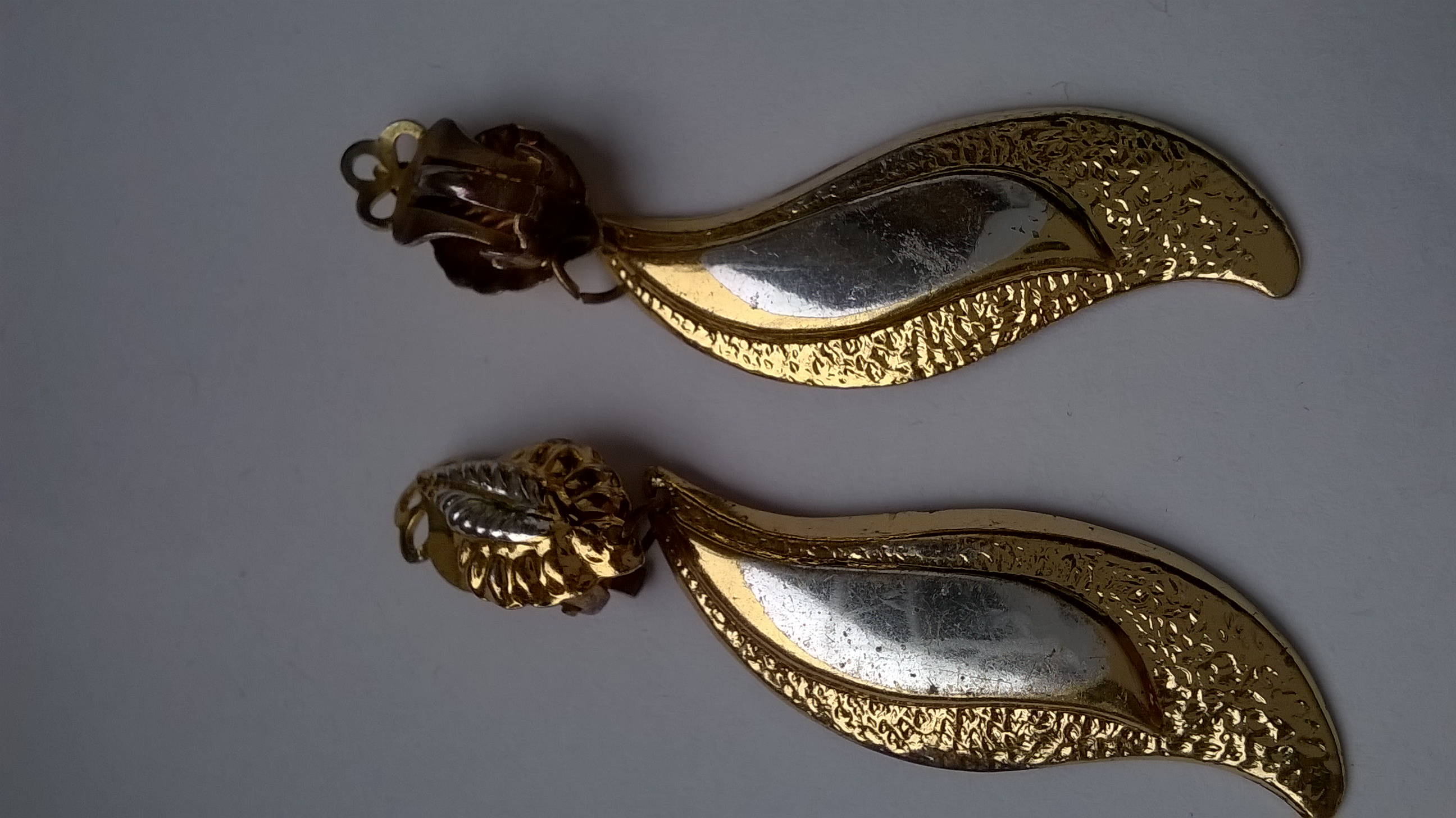 First version of my photo - "klipsy3"